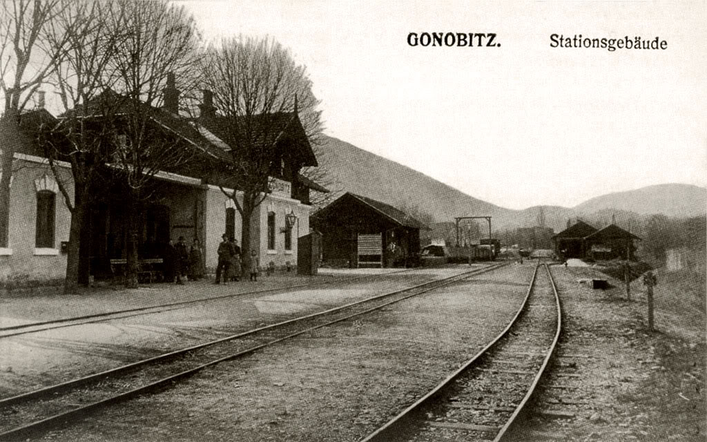 Former train station in Slovenske Konjice (prior 1918 known under the German name Gonobitz), Slovenia. The train station building was torn down a few years after 1962 when the narrow gauge railway Poljčane - Slovenske Konjice - Zreče was abandoned